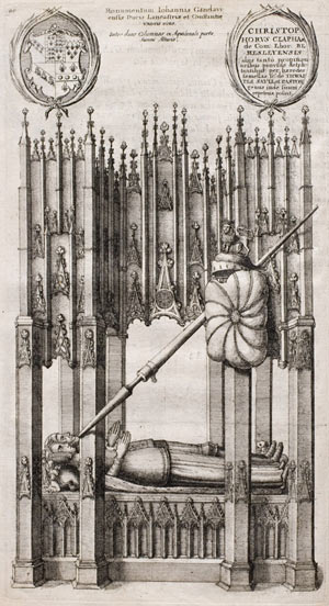 The lost monument of John of Gaunt and his wife Blanche of Lancaster in the Old St. Paul's Cathedral. Engraving with the title 'A view of the monuments ... as they stood in September 1641' from William Dugdale's "The history of St Paul's Cathedral", London 1714.